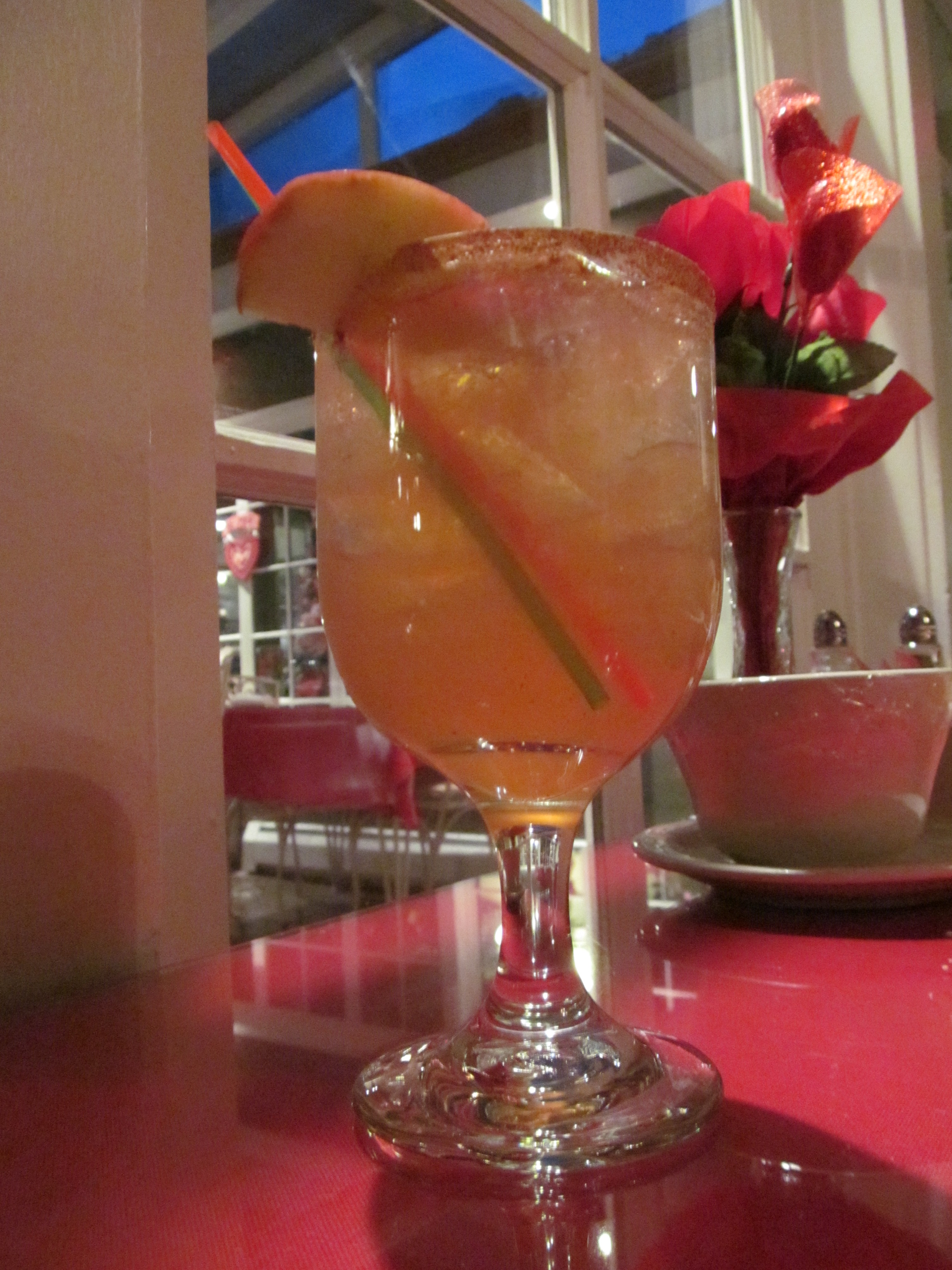 Chimayo Cocktail at Rancho de Chimayo, Chimayo New Mexico